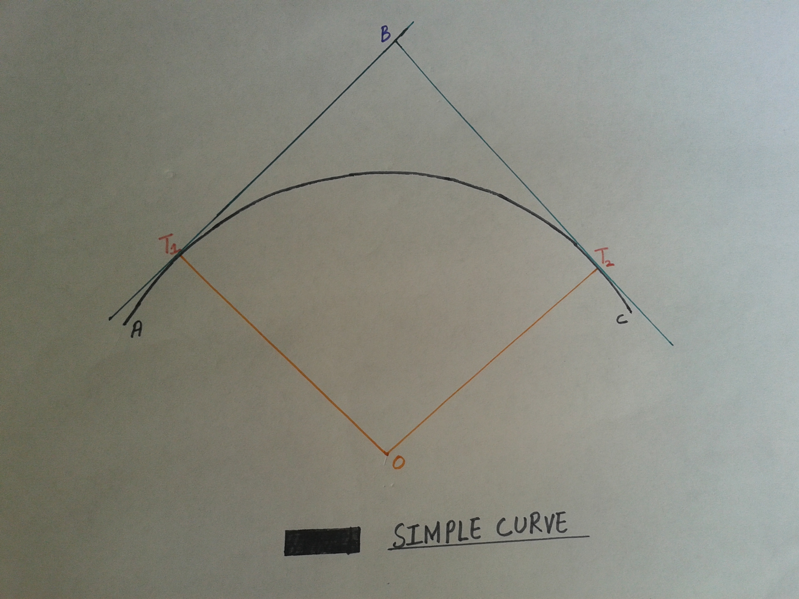 Curve